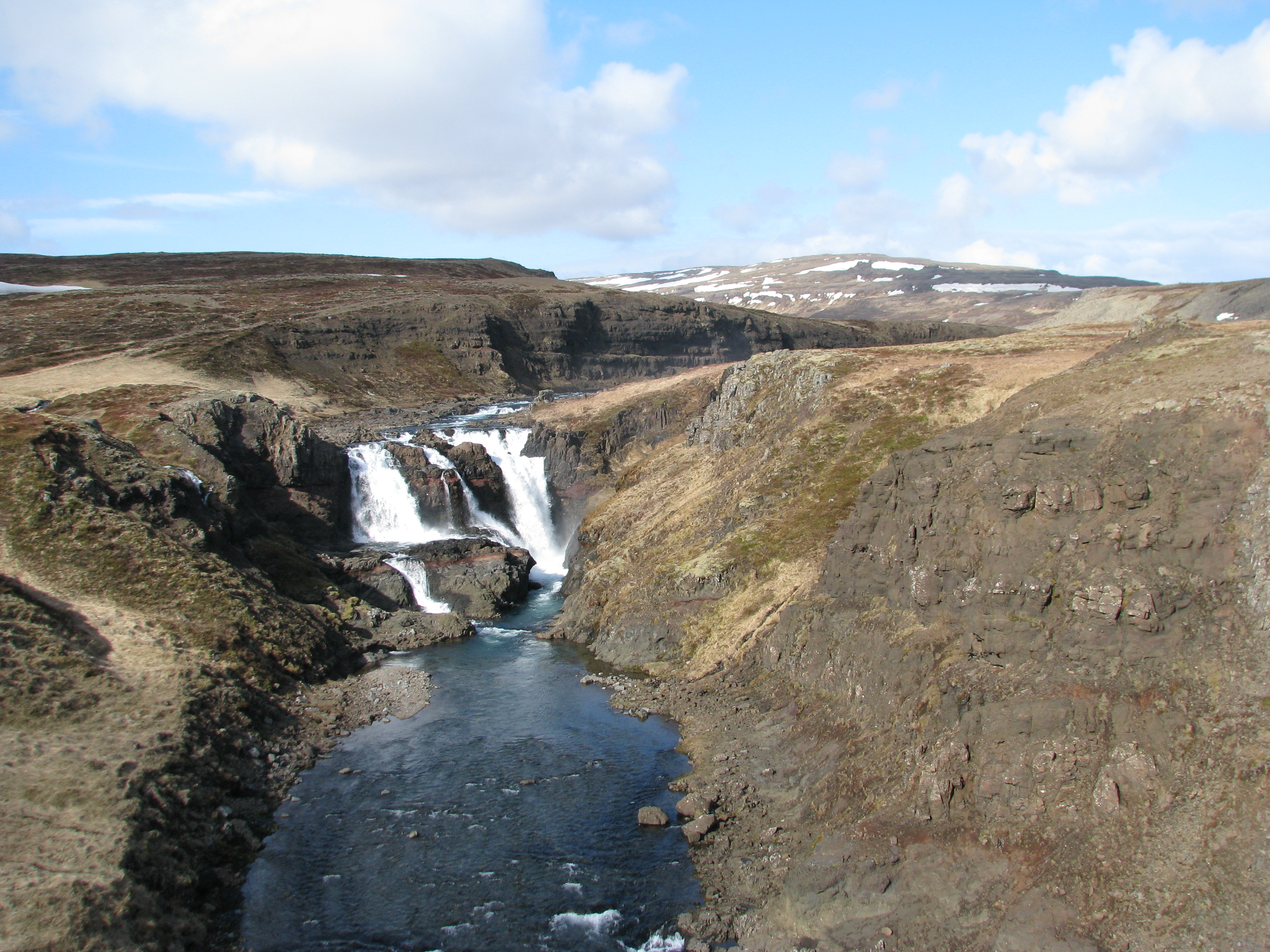 The Rjukandafoss, one of the biggest waterfalls on Snaefellsnes, Iceland.